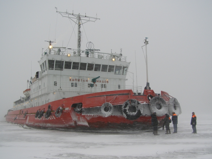 Azov Sea Photo Gallery: Ice-breaker 'Captan Demidov' IMO Number: 8027286 MMSI Number: 273332600 Callsign: UEVK Length: 77 m Beam: 17 m